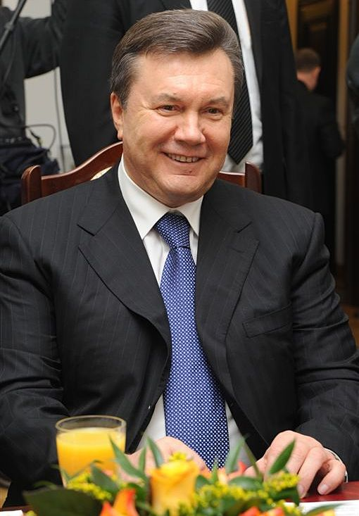 President of Ukraine Viktor Yanukovych in the Polish Senate